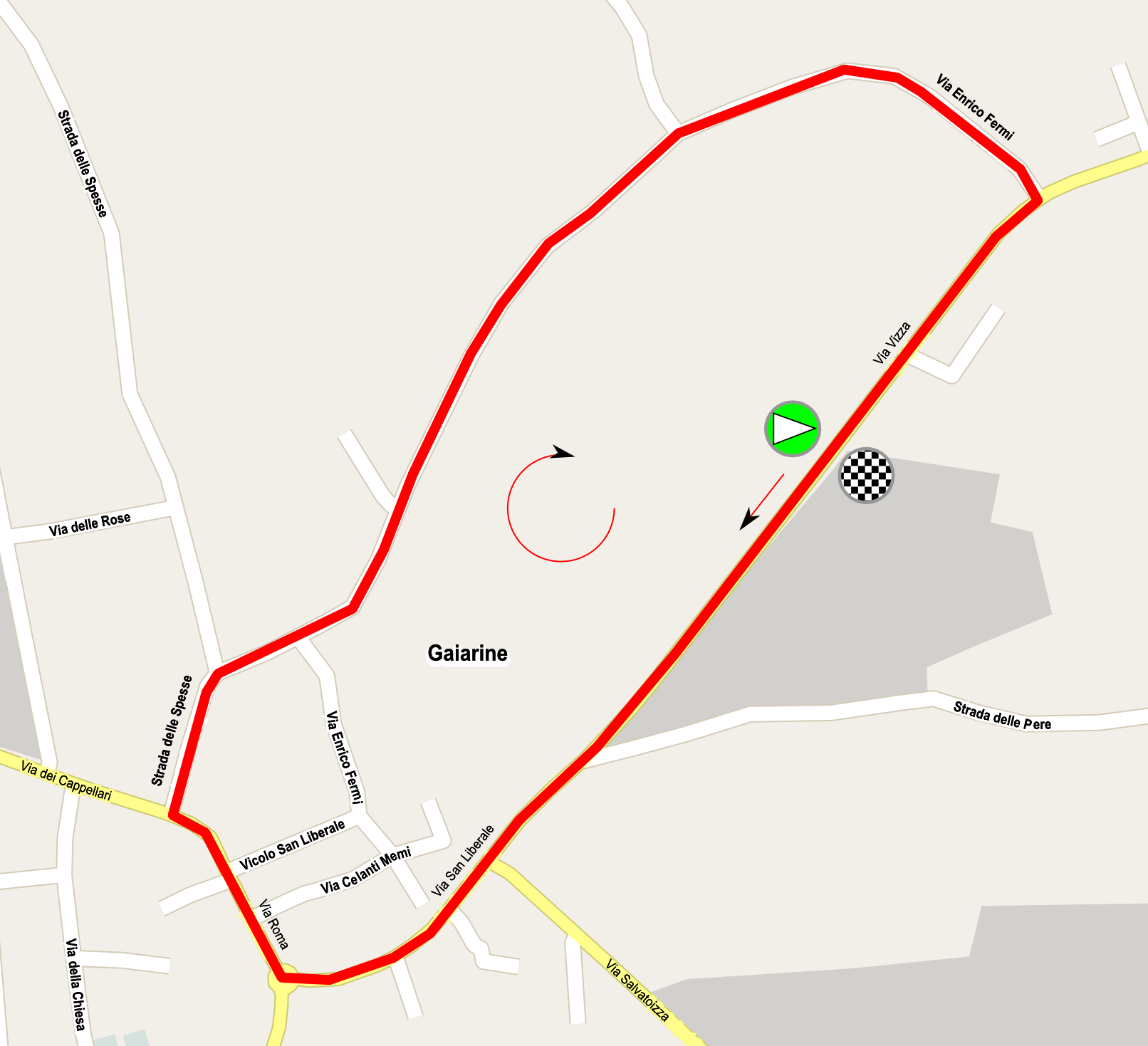 Map of the prologue of the Giro rosa 2016.